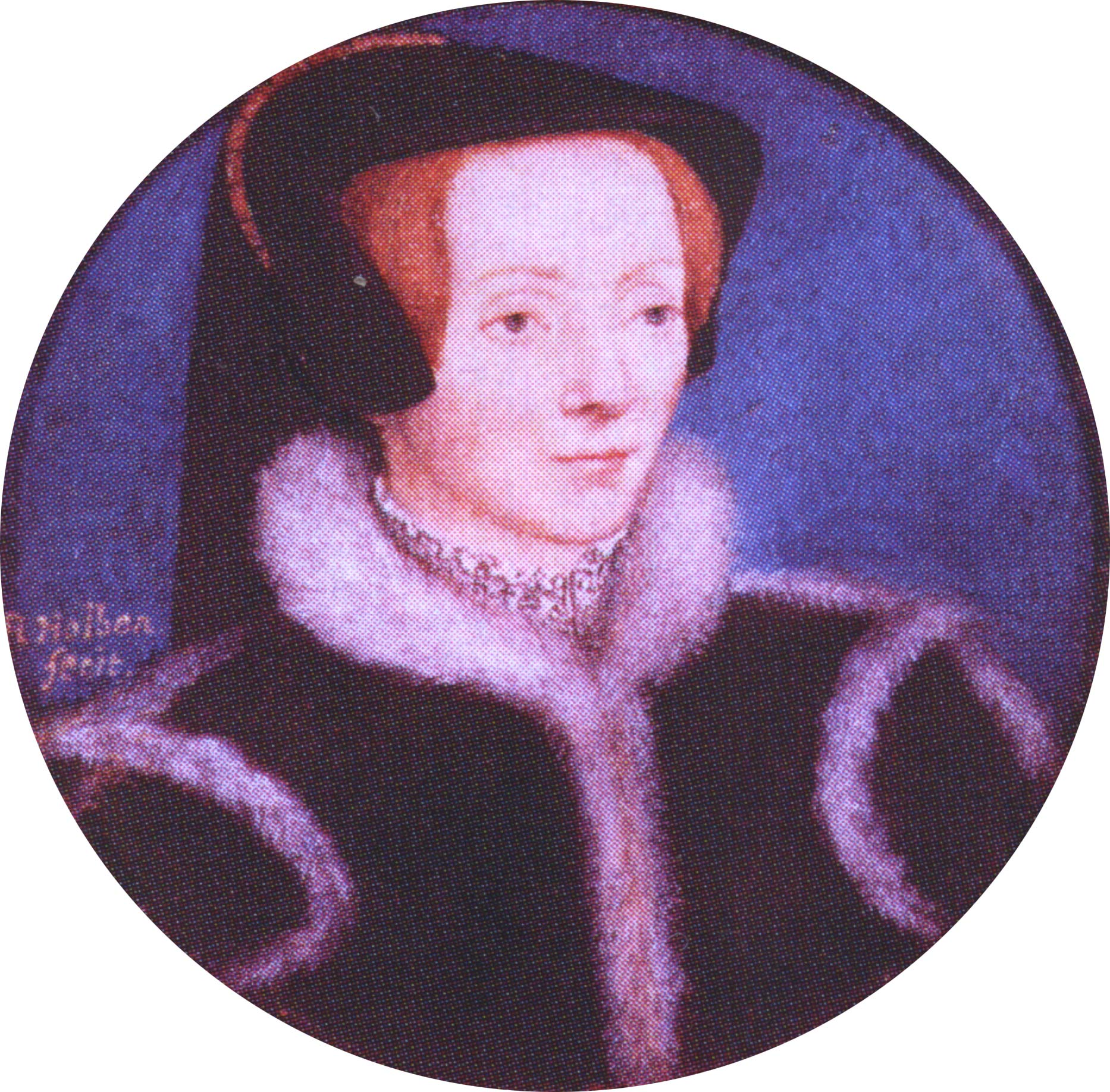 Watercolour miniature of Catherine Willoughby, Duchess of Suffolk by Hans Holbein, Collection of Baroness Willoughby de Eresby, before 1543, possibly painted in 1541 together with the miniatures of her sons